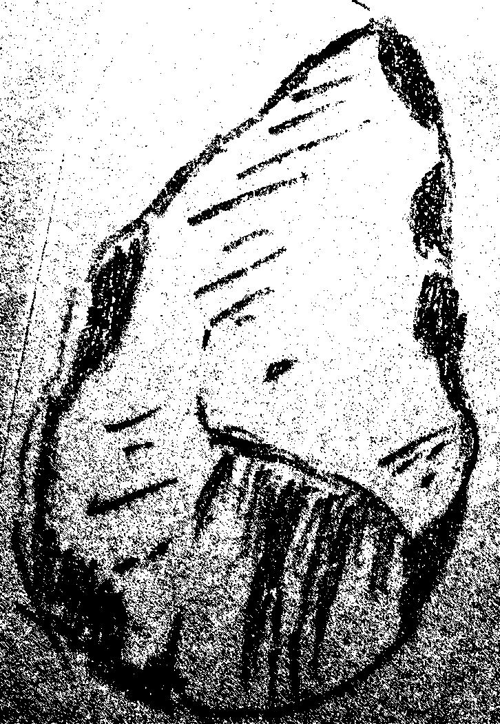 stone of yuanmou man 中文（中国大陆）: 元谋人石器